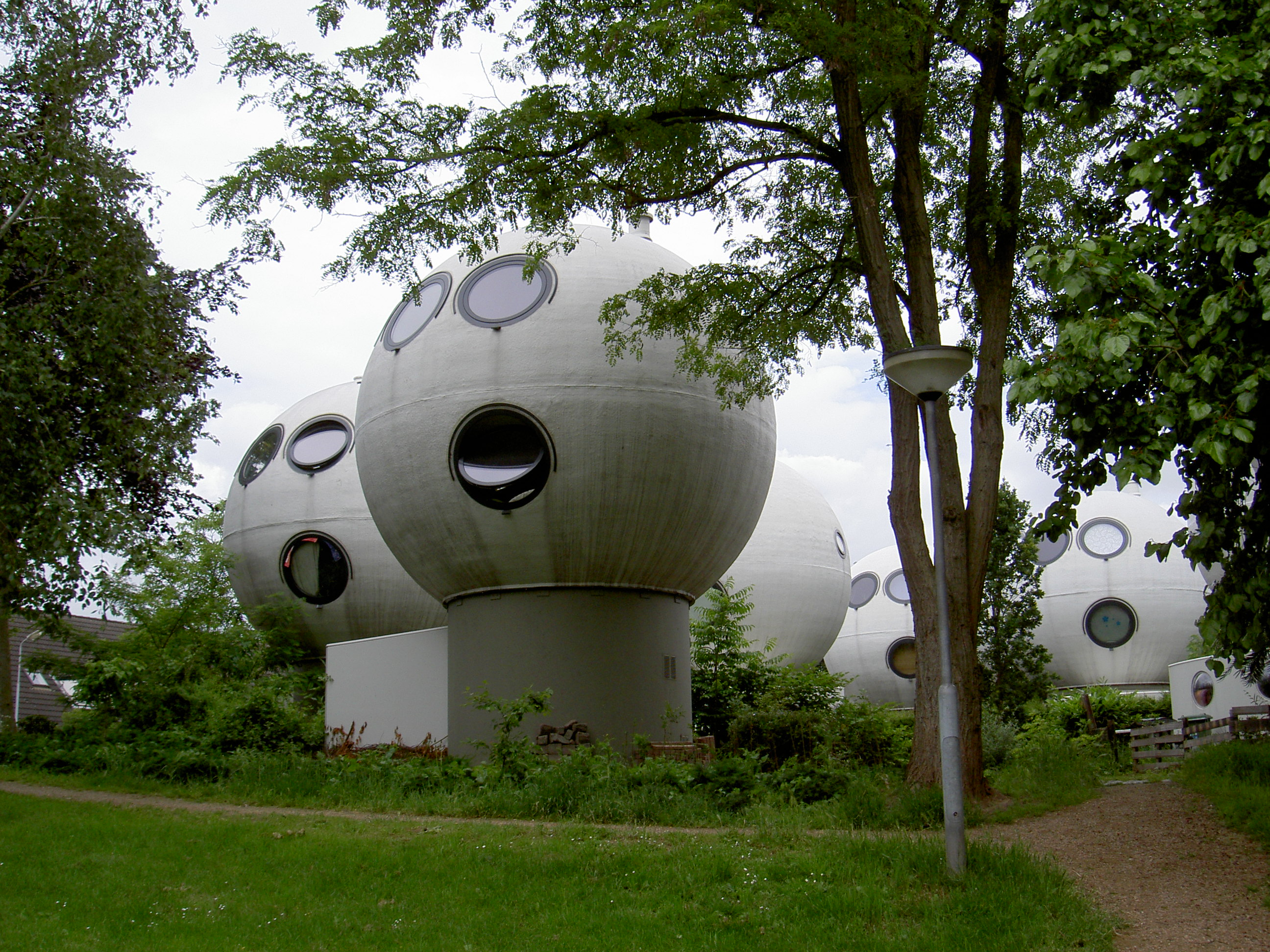 Ball houses at the Bollenveld in the Dutch city 's-Hertogenbosch, designed in the end of the 1970's by architect Dries Kreijkamp.